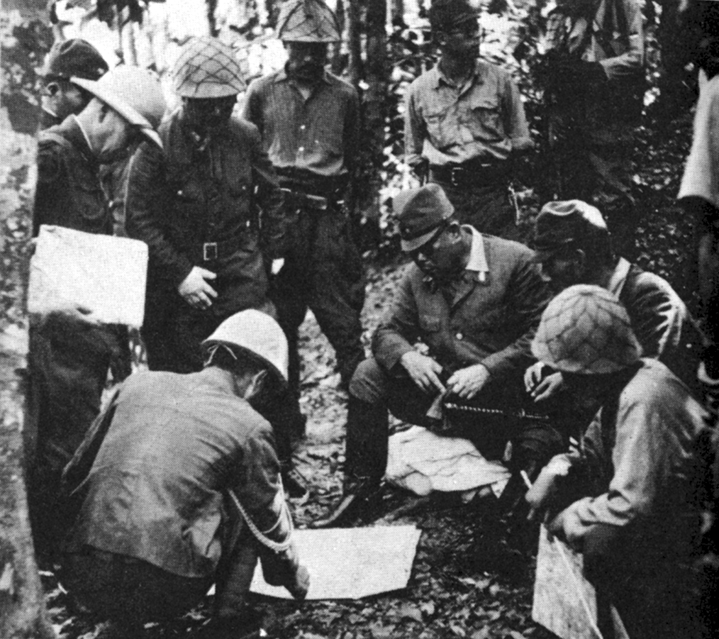 General Tomoyuki Yamashita leading successful assault of japanese troops on Malaya.